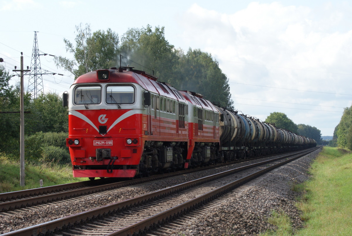 Twin-section diesel locomotive 2M62M-1198 (rebuilt with CAT engines), near Kyviškės, Lithuania